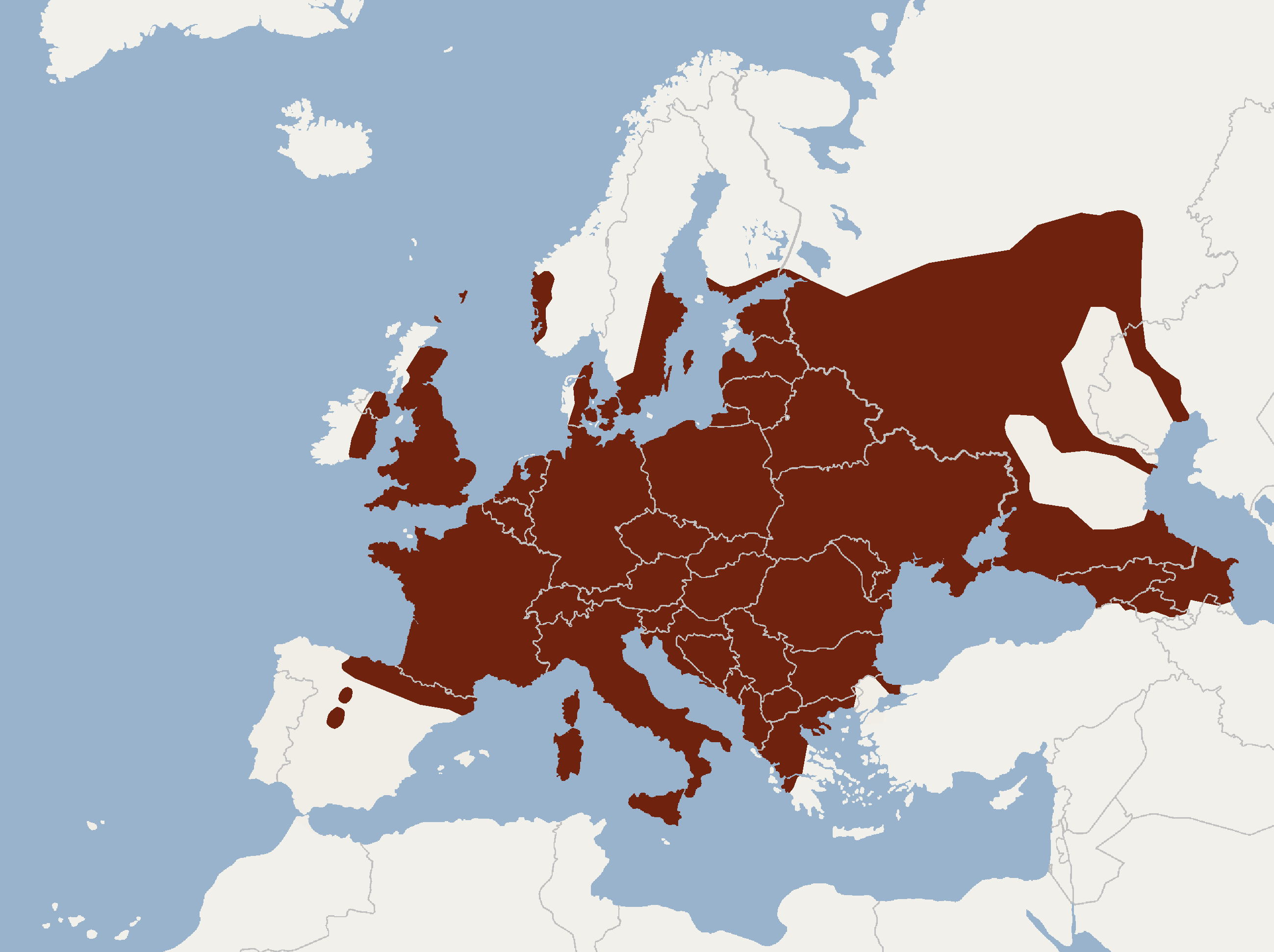 according to and Aulagnier & Al., 2011